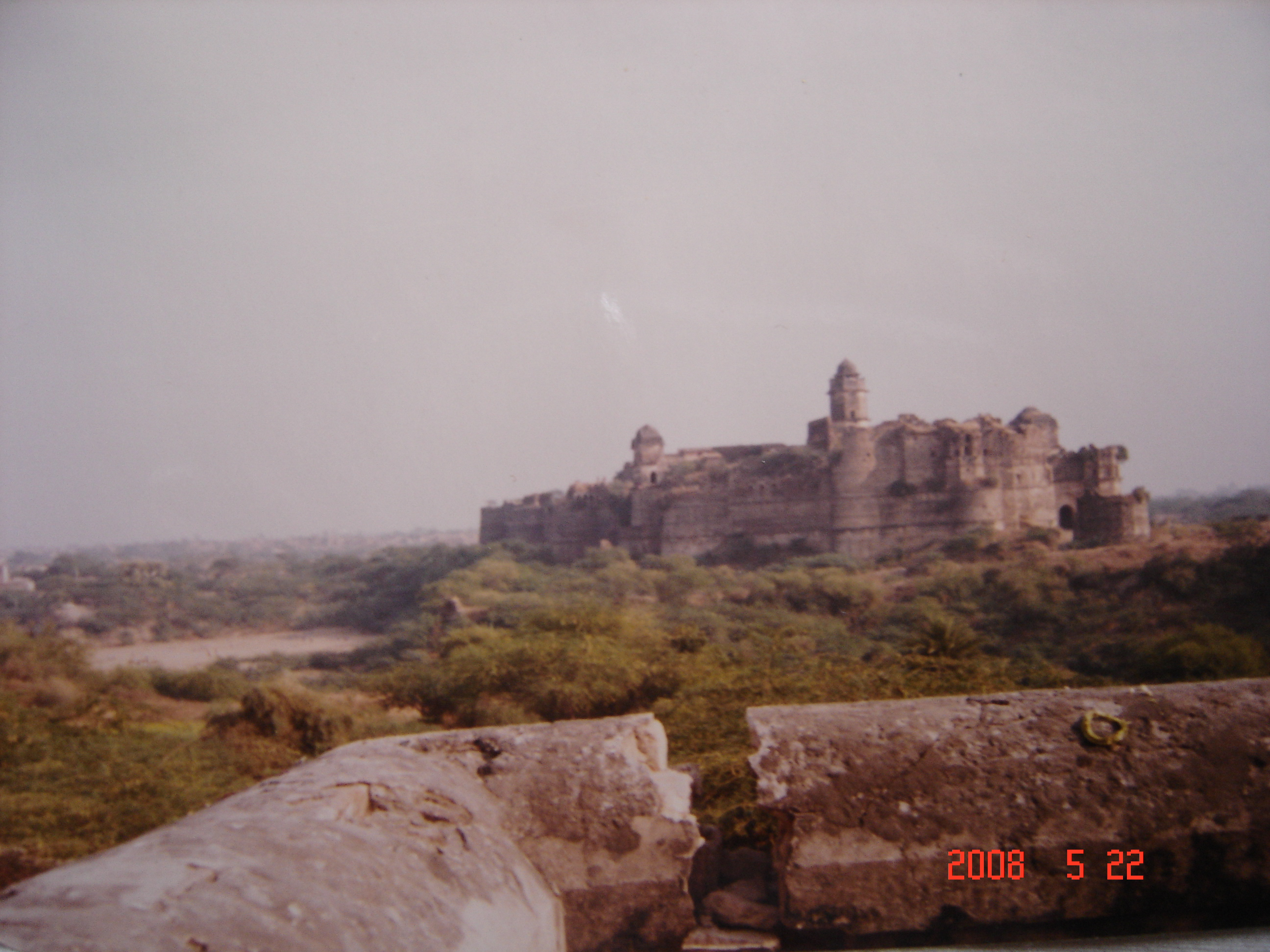 A photo of Ater Fort, Madhya Pradesh. The date this photo was taken is unknown. The date in the photograph is 22 May 2008, the date I took a photo of the original photograph. This photograph was taken from my mother's ancestral house in Ater.